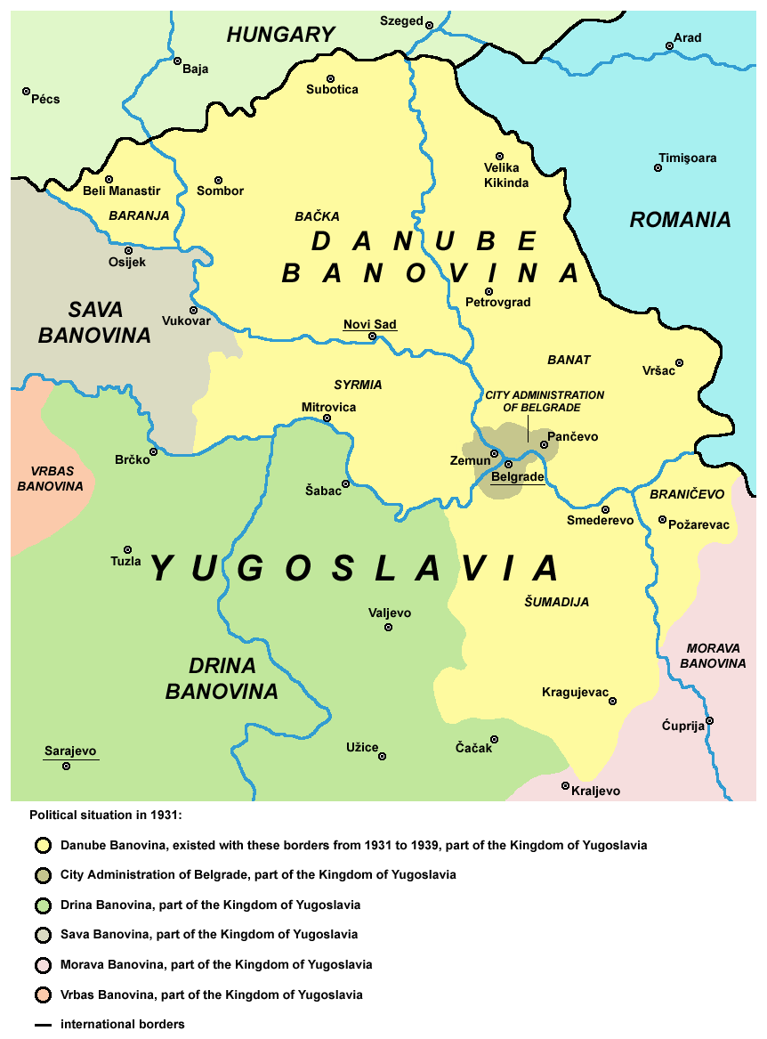 historic map of Danube Banovina (in 1931).